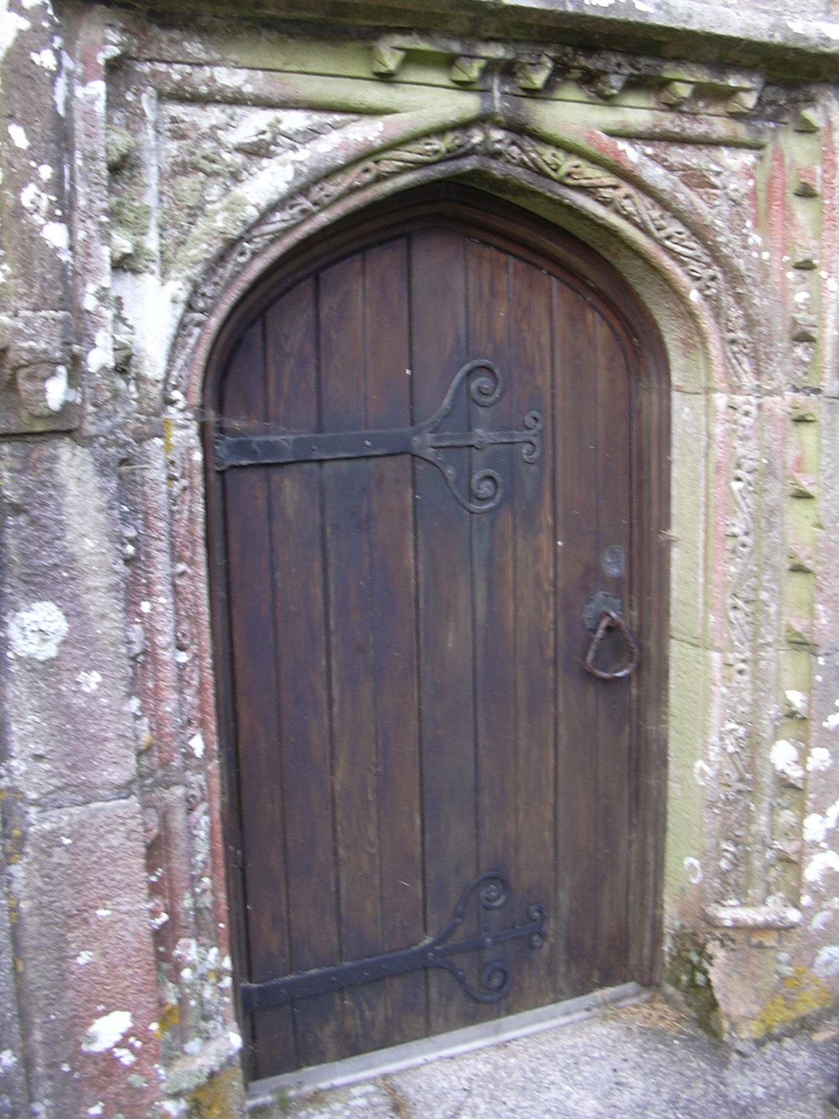 South door of Mabe Church